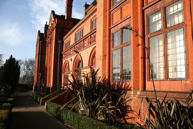 Greestone Place Originally the Christ's Hospital Foundation Girl's School, opened in 1893, now known as Greestone Place in the Cathedral Quarter campus of the University of Lincoln.